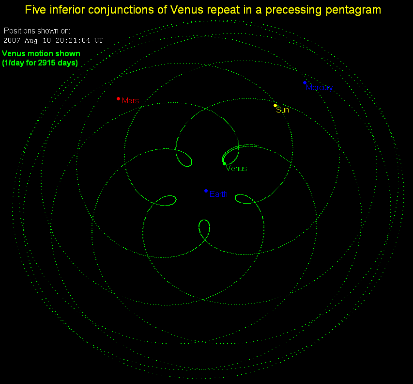 The planet Venus orbits just over 13 times for every 8 orbits of the Earth, creating a pentagrammic pattern of inferior conjunctions. Each successive inferior conjunction occurs after about 1.6 Earth years and therefore shifts about 144 degrees in the direction opposite the Earth's orbital motion. During each cycle of 8 Earth years, the pentagram precesses about 1.5 degrees in the direction of Earth's orbital motion, reflecting the fact that the Earth:Venus orbital ratio is an approximate ('near') rather than a perfect orbital resonance. (Text written by TomRuen, FelineAvenger, and WolfmanSF)